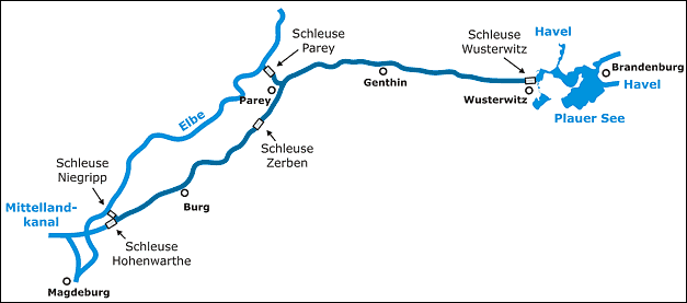 Course of the Elbe-Havel-Canal / Verlauf des Elbe-Havel-Kanals